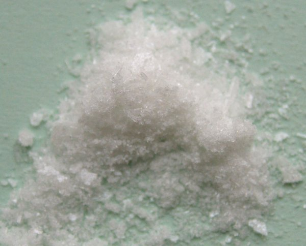 tungsten carbonyl powder